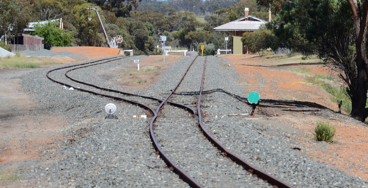 Wickepin railway yard viewed from northerly entry at road crossing